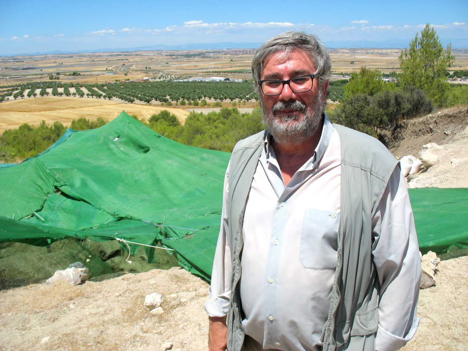 Jorge Morales Romero. Spanish paleontologist. CSIC Research Professor at the National Museum of Natural Sciences - CSIC. Photography at the site Batallones 3, Torrejón de Velasco, Madrid, Spain)